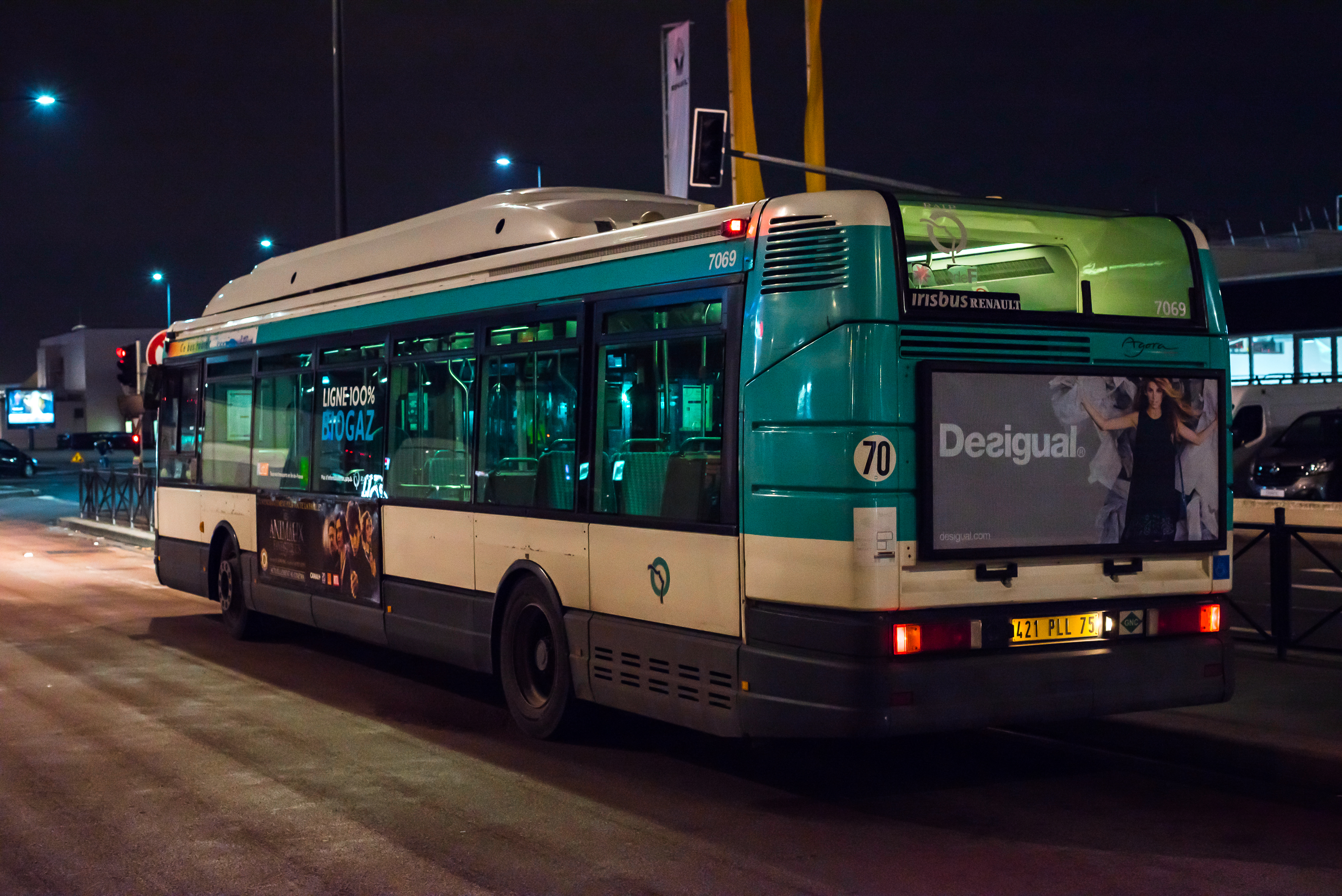 Irisbus Agora GNV 7069 RATP, ligne 103, Chevilly-Larue Bus transport in Paris and Île-de-France.